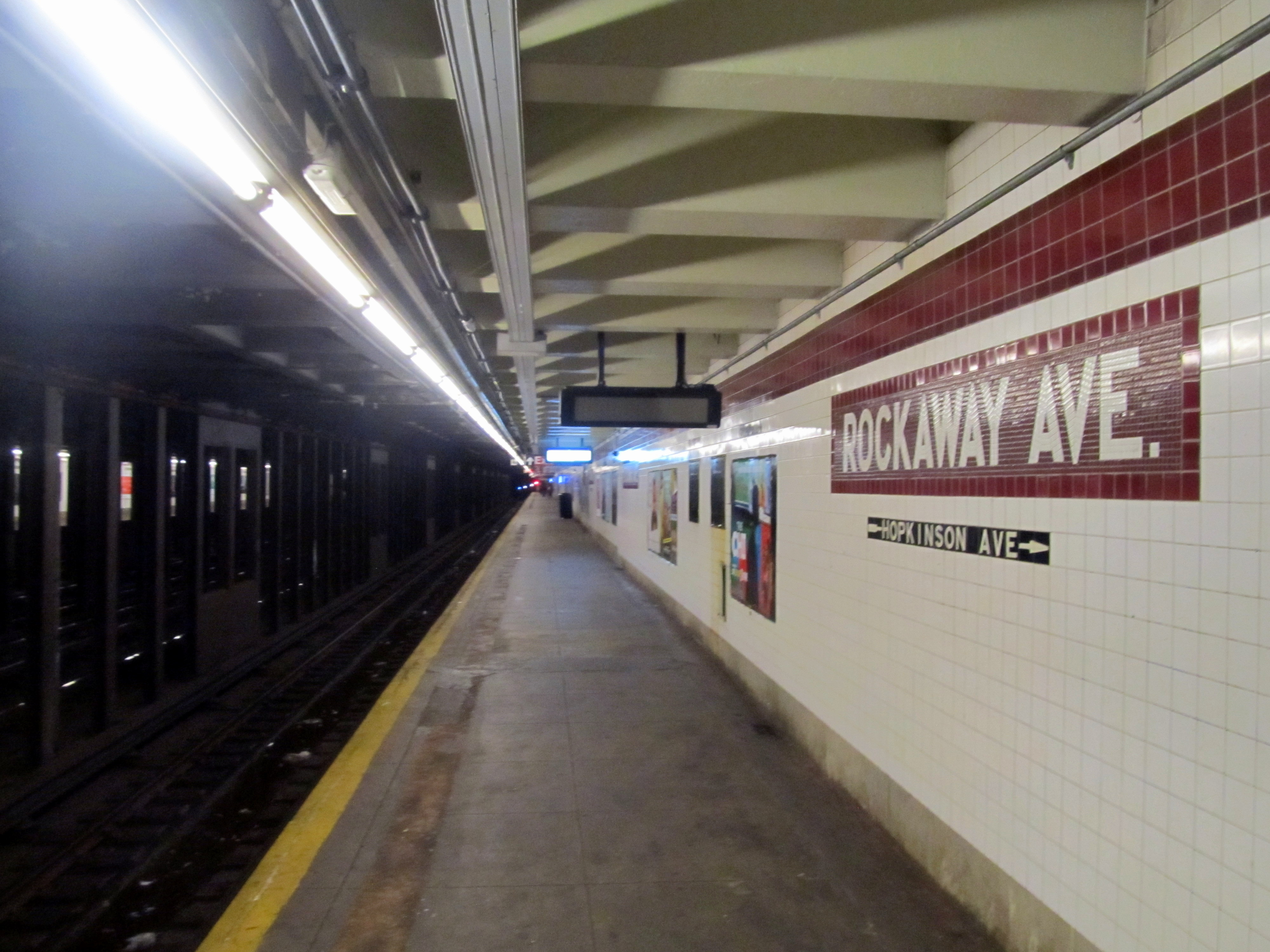 Eastbound platform at Rockaway Avenue station in December 2017